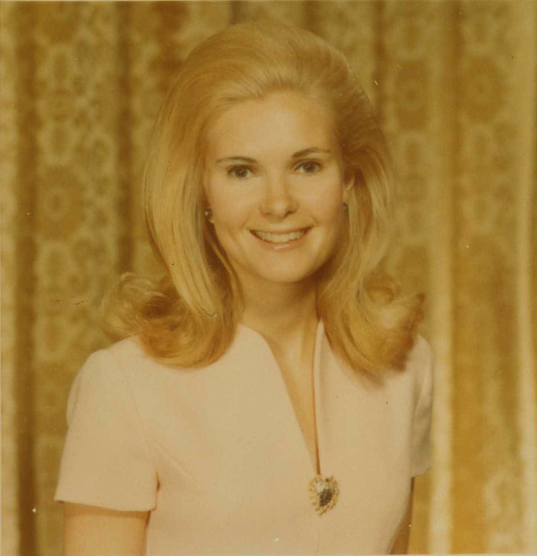 ● Frame(s): WHPO-D1055-, Copy of a closeup formal portrait of Tricia Nixon Cox. 12/4/1972, Washington, D.C., unknown. Tricia Nixon Cox